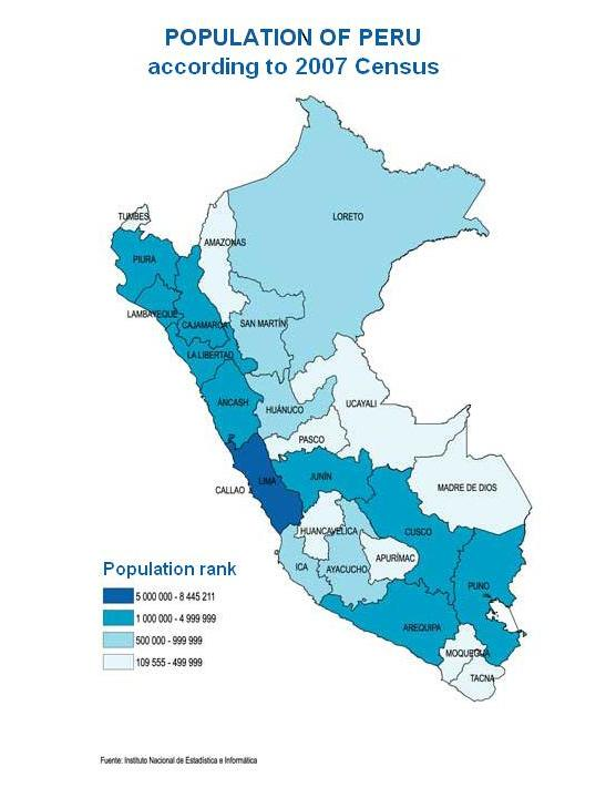 Population map of Peru